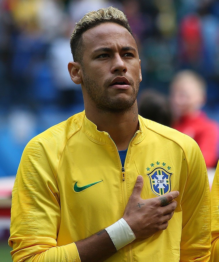 Neymar, Willian Borges da Silva